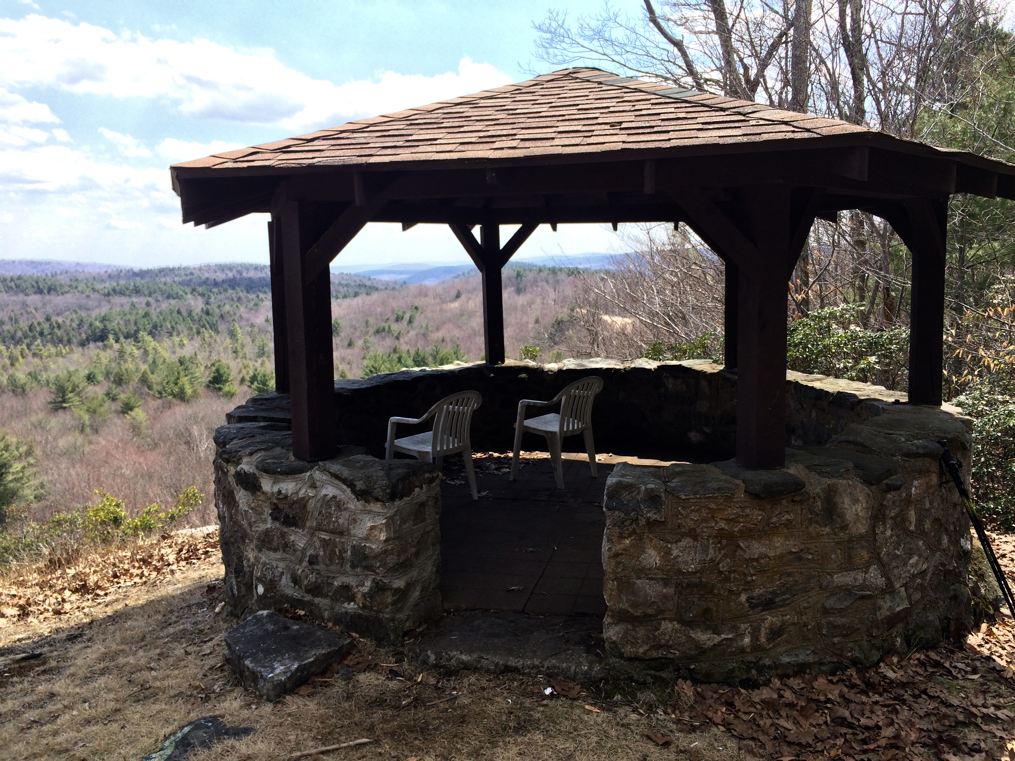 Dennis Hill State Park Picnic Pavilion overlook on park's southeast perimeter ridge.